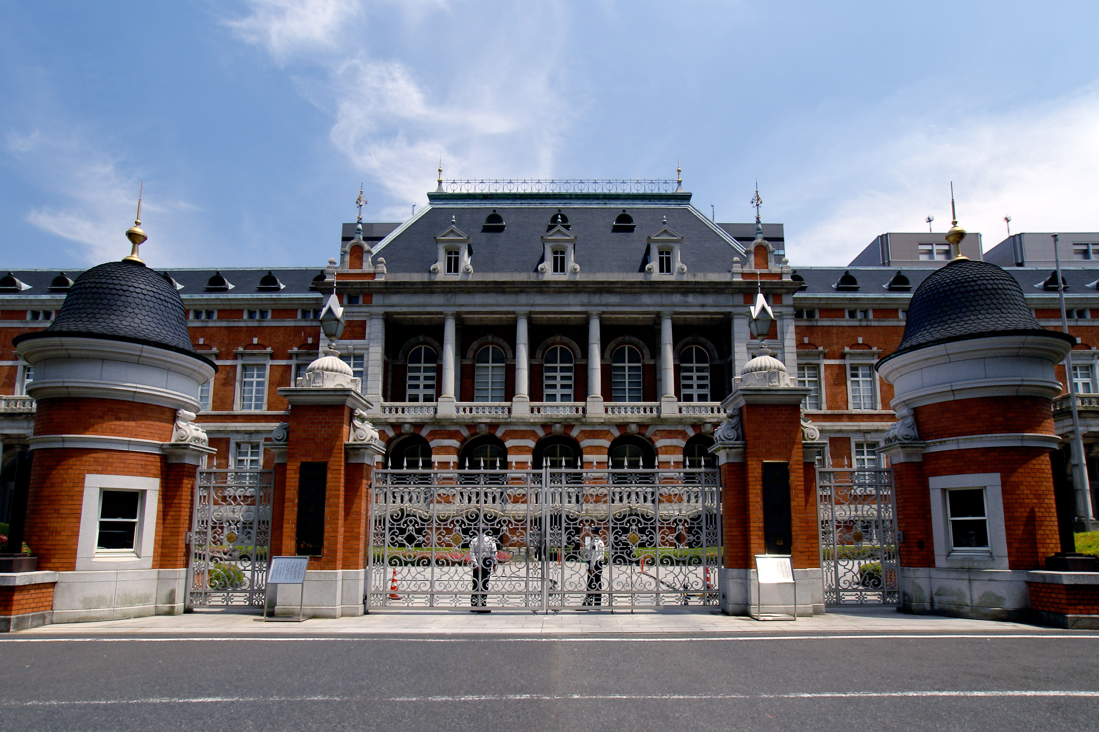 Ministry of Justice Older Administration Building in Chiyoda-ku, Tokyo, Japan